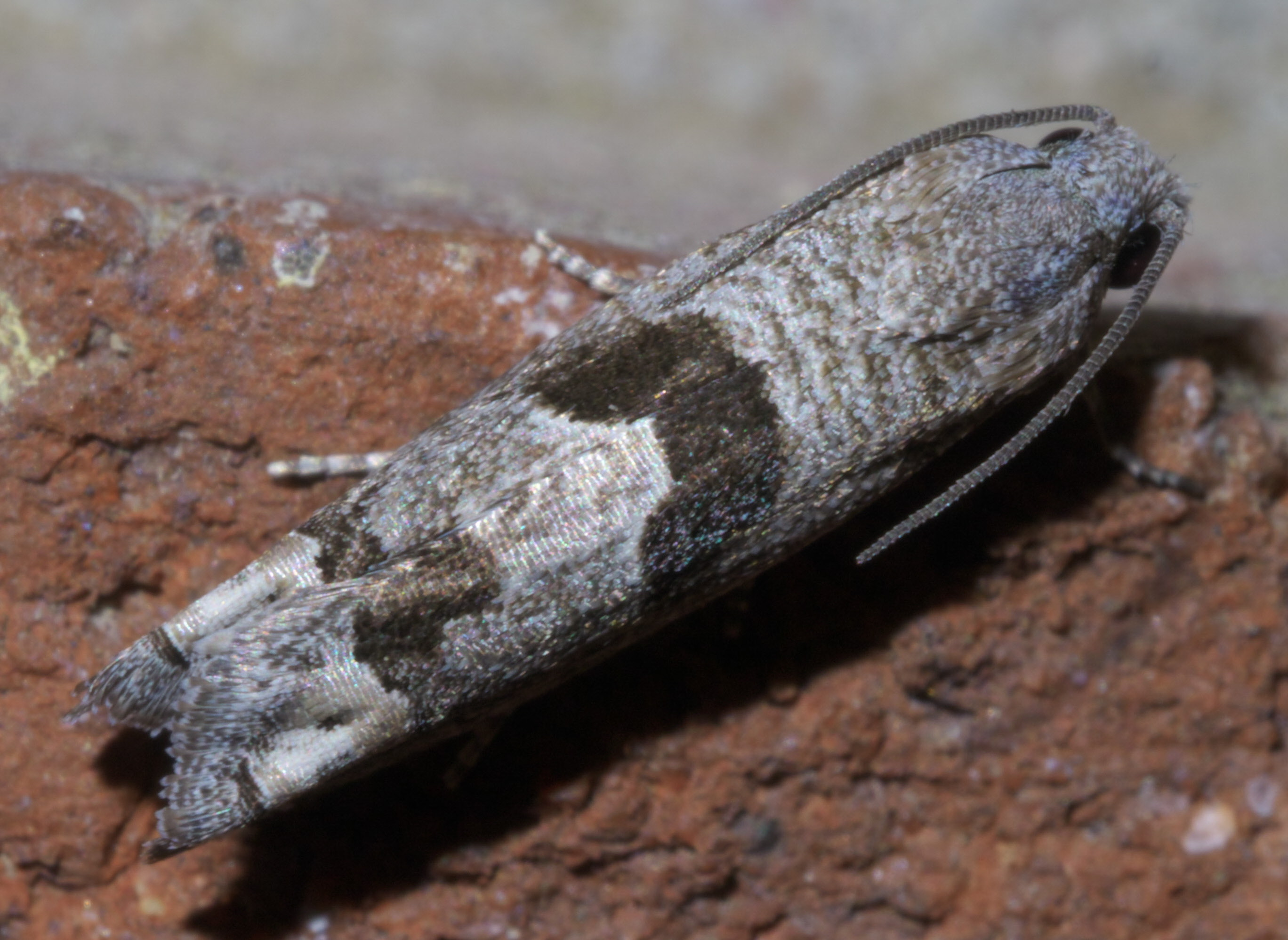 Suleima helianthana, sunflower bud moth, Size: 9.6 mm, ID Confidence: 94